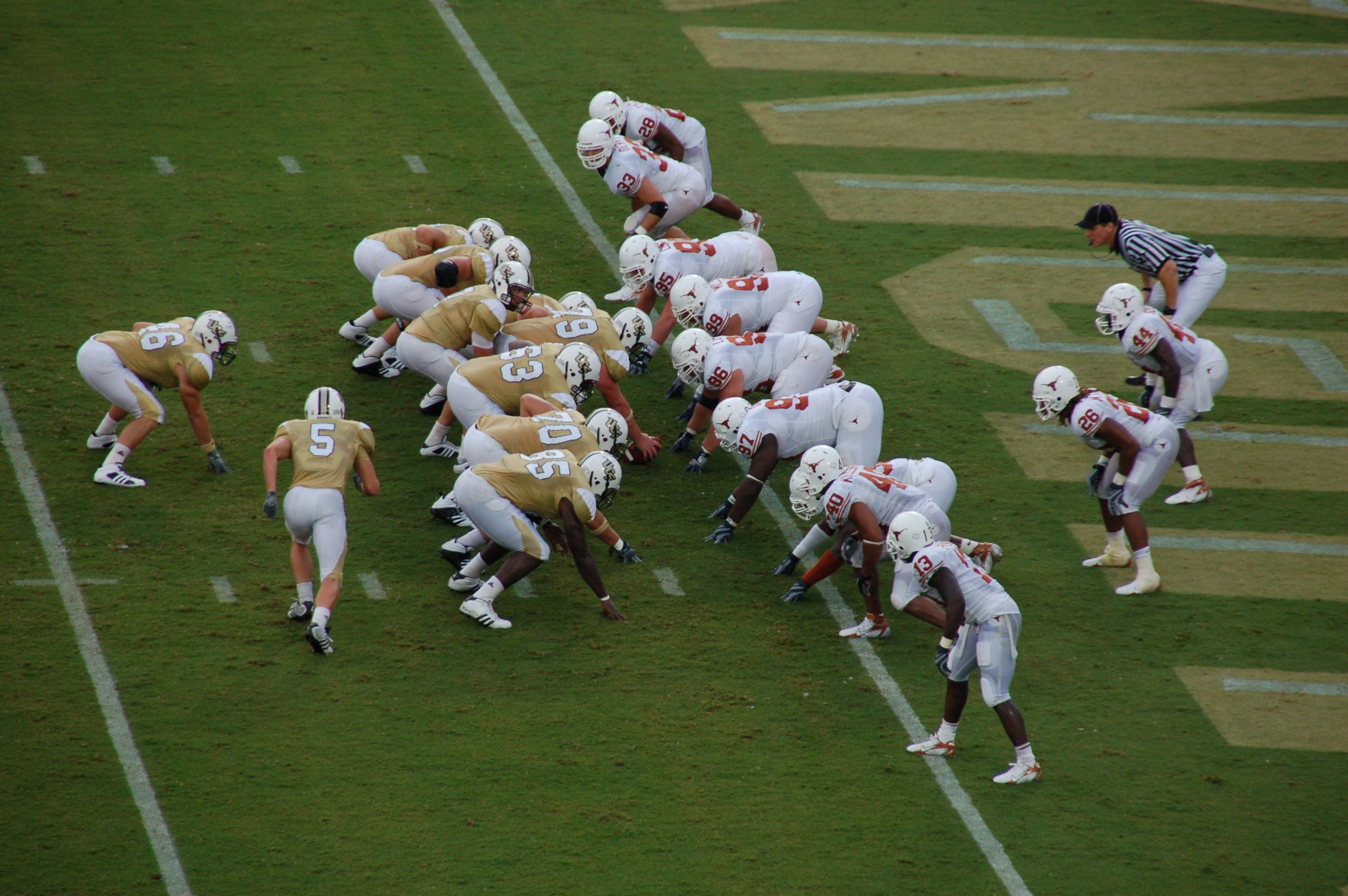 UCF Knights at the Texas goal-line at a UCF home game played at Bright House Networks Stadium in Orlando, Florida